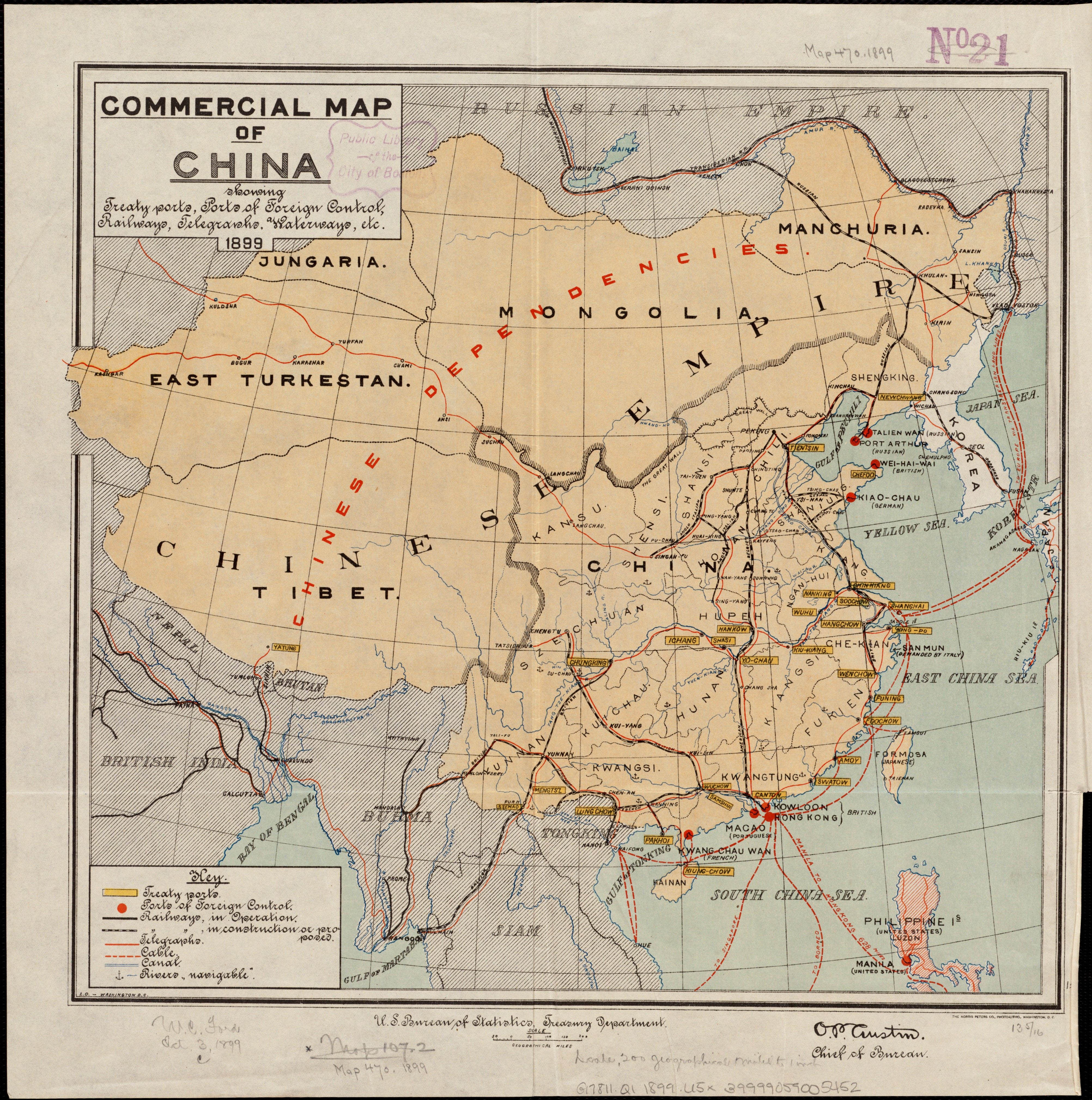 Commercial map of China : showing treaty ports, ports of foreign control, railways, telegraphs, waterways, etc., 1899 United States. Dept. of the Treasury; Bureau of Statistics